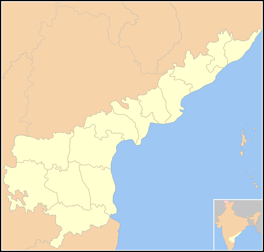 Blank map Andhra Pradesh state and districts